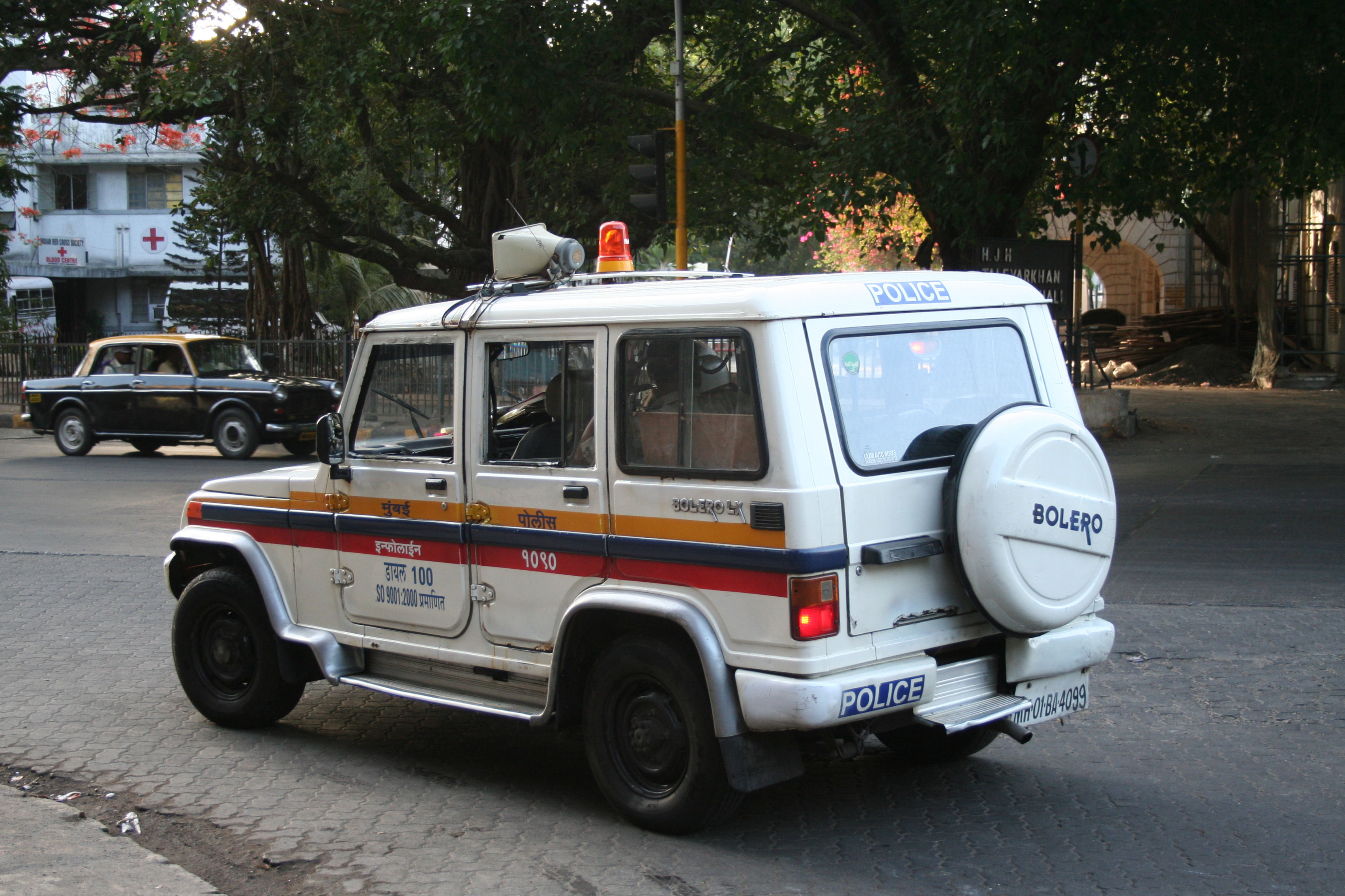 Morning in Old Bombay - 4 A drive around "Old Bombay" (the old colonial bit!) early one morning before the traffic got too insane!